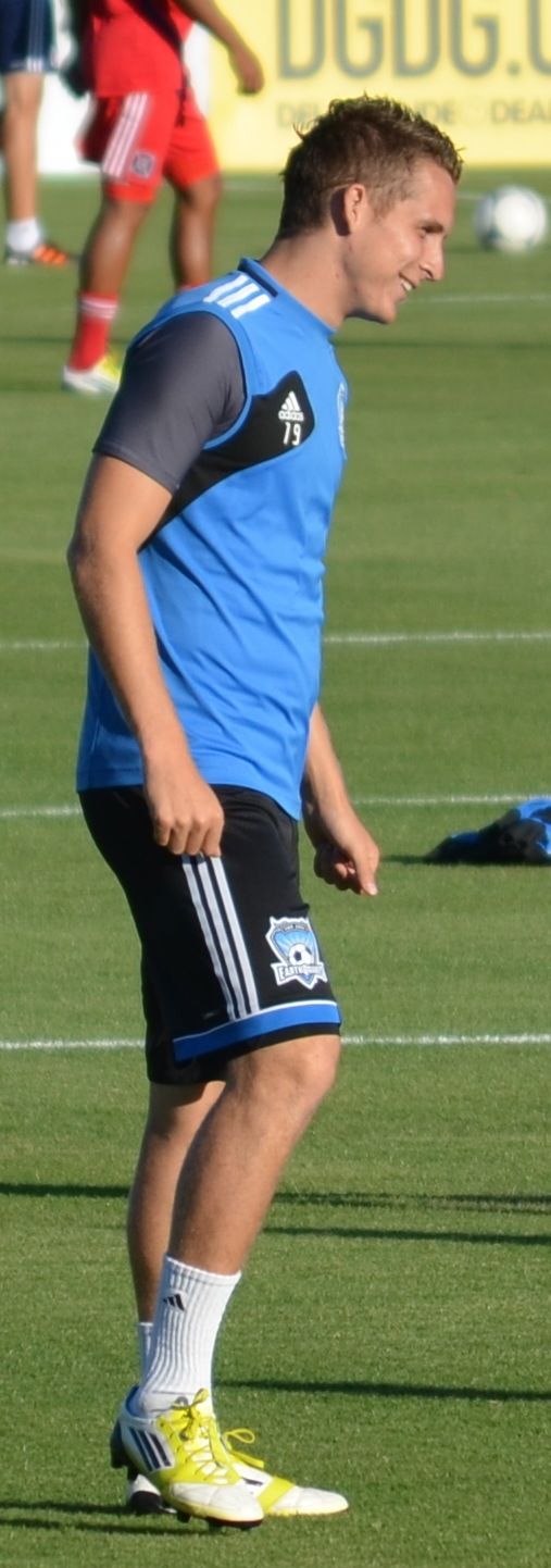 Sam Garza warming up at Buck Shaw stadium on 28 July 2012.